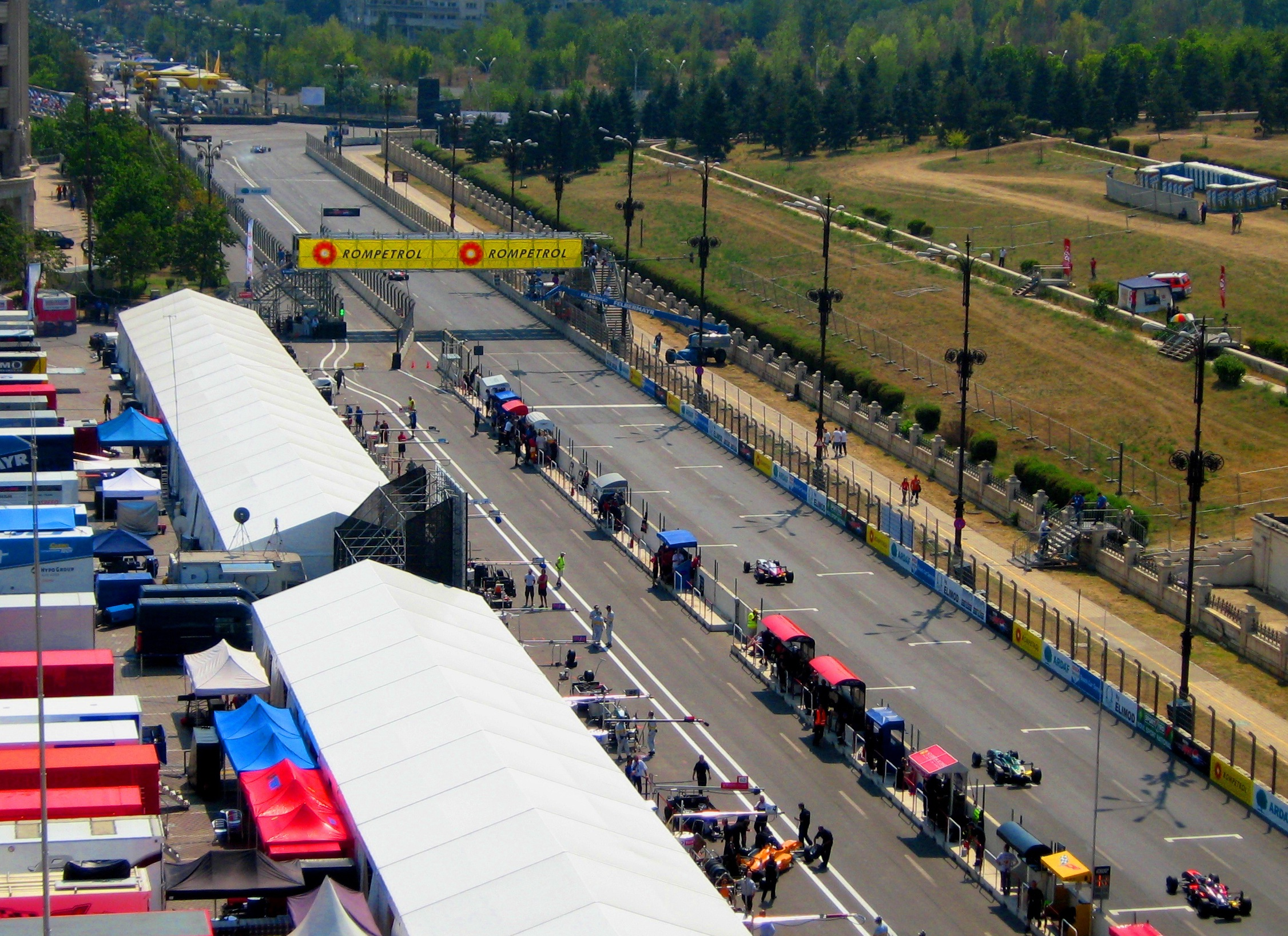 Bucharest City Challenge 2008, on Bucharest Ring for 2008 British Formula Three season